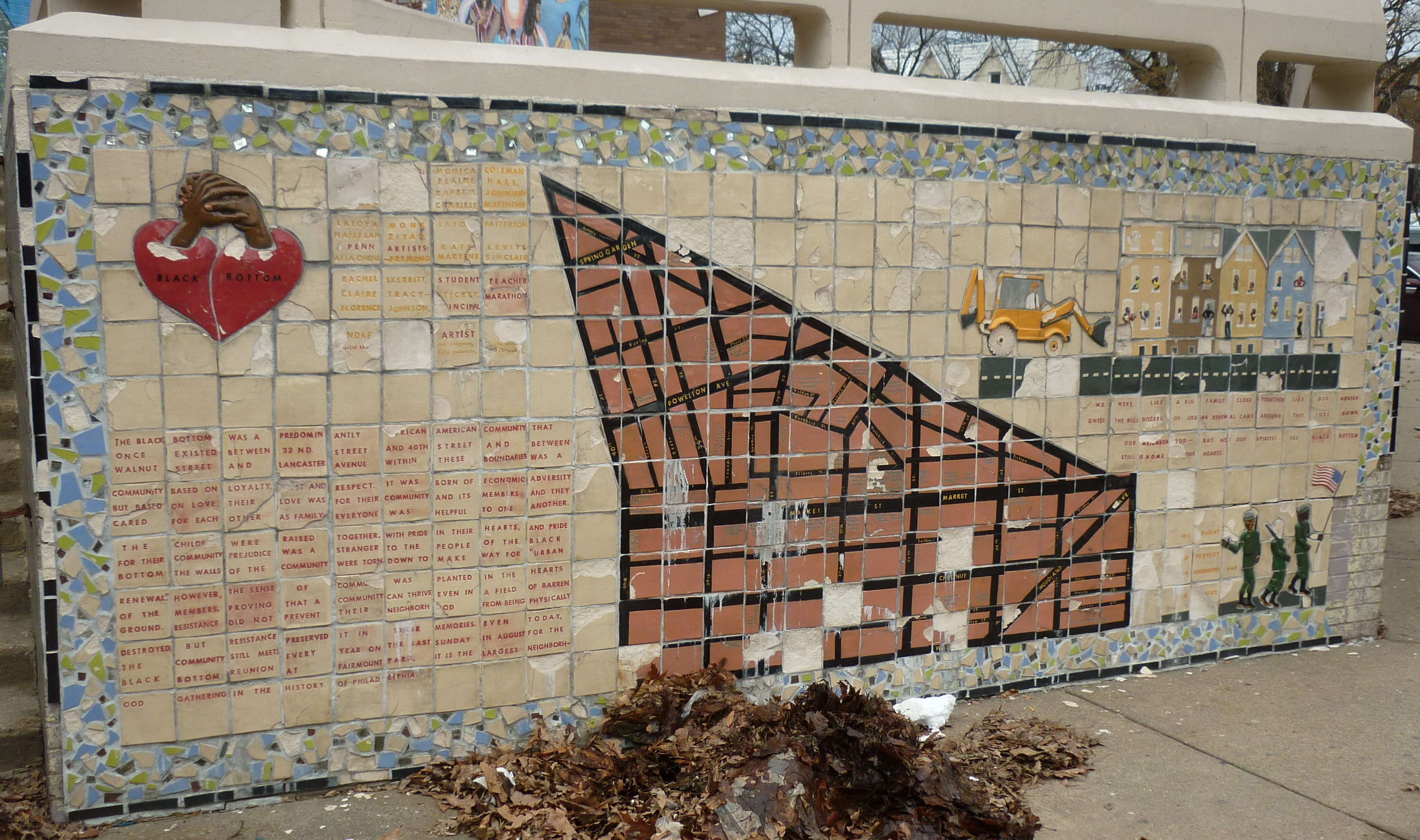 Mosaic depicting the Black Bottom neighborhood in Philadelphia. Located on a wall in front of University City High School. The boundaries depicted by the mosaic are: 40th St to the west, Lancaster Ave. to the North, 32nd St. to the east, and Walnut St. to the South.